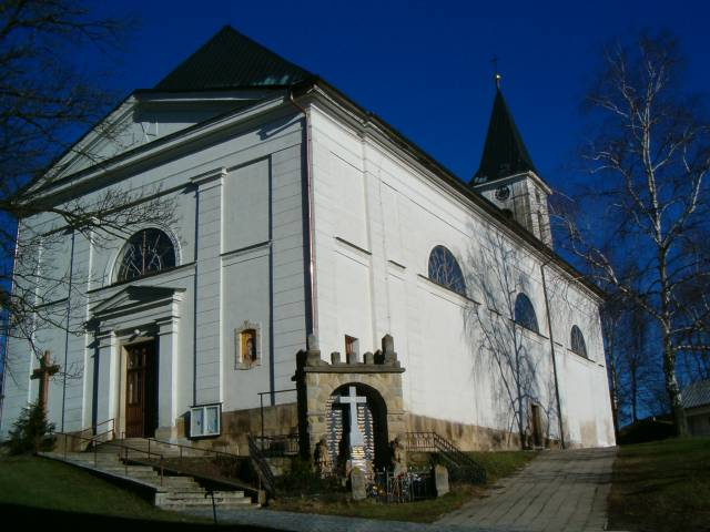 Church in Újezd, Czech republic.